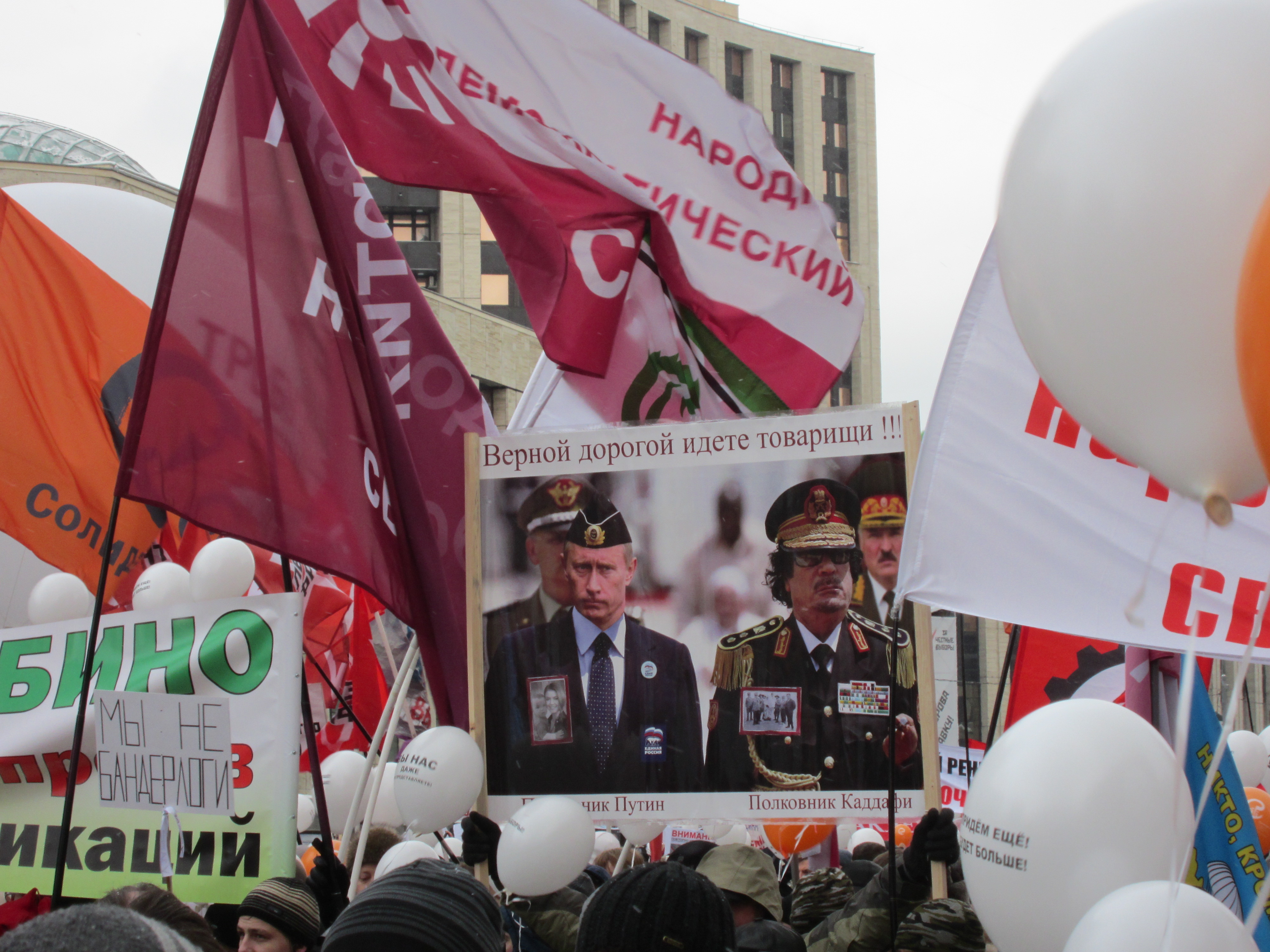 Moscow rally 24 December 2011, Sakharov Avenue; the sign over protestors heads says "You are going the right way, comrades! The bottom text labels "Colonel Putin and Colonel Gaddafi" The phrase "Верной дорогой ..." is the title of a propaganda slogan of Lenin showing "the right way", widespread in the Soviet Union.